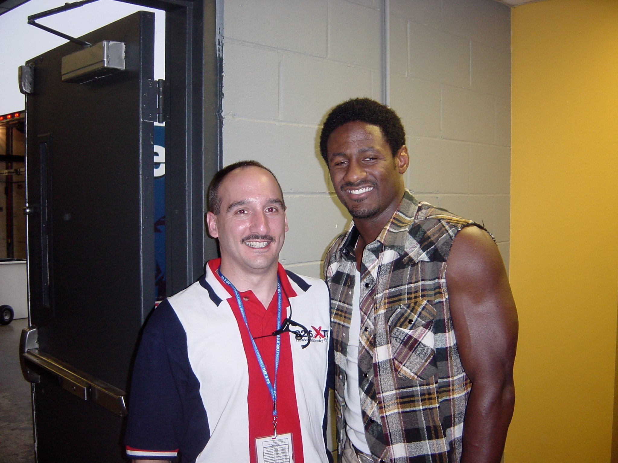 Philadelphia Eagles player Freddie Mitchell (right) backstage at a country music concert on May 31, 2003.